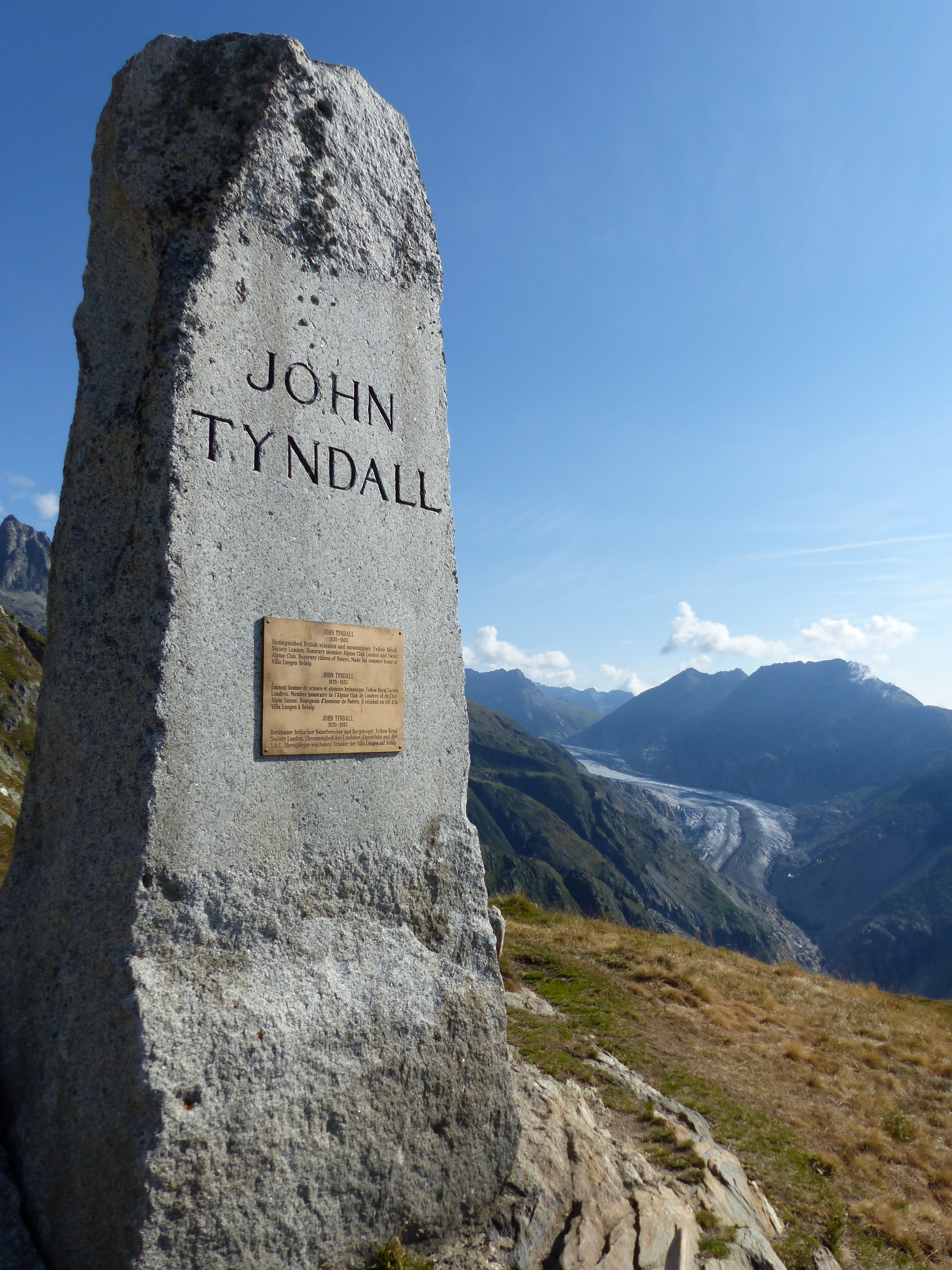 Memorial to the Irish and British physicist John Tyndall, with the Grossem Aletschgletscher and Eggishorn in the background.